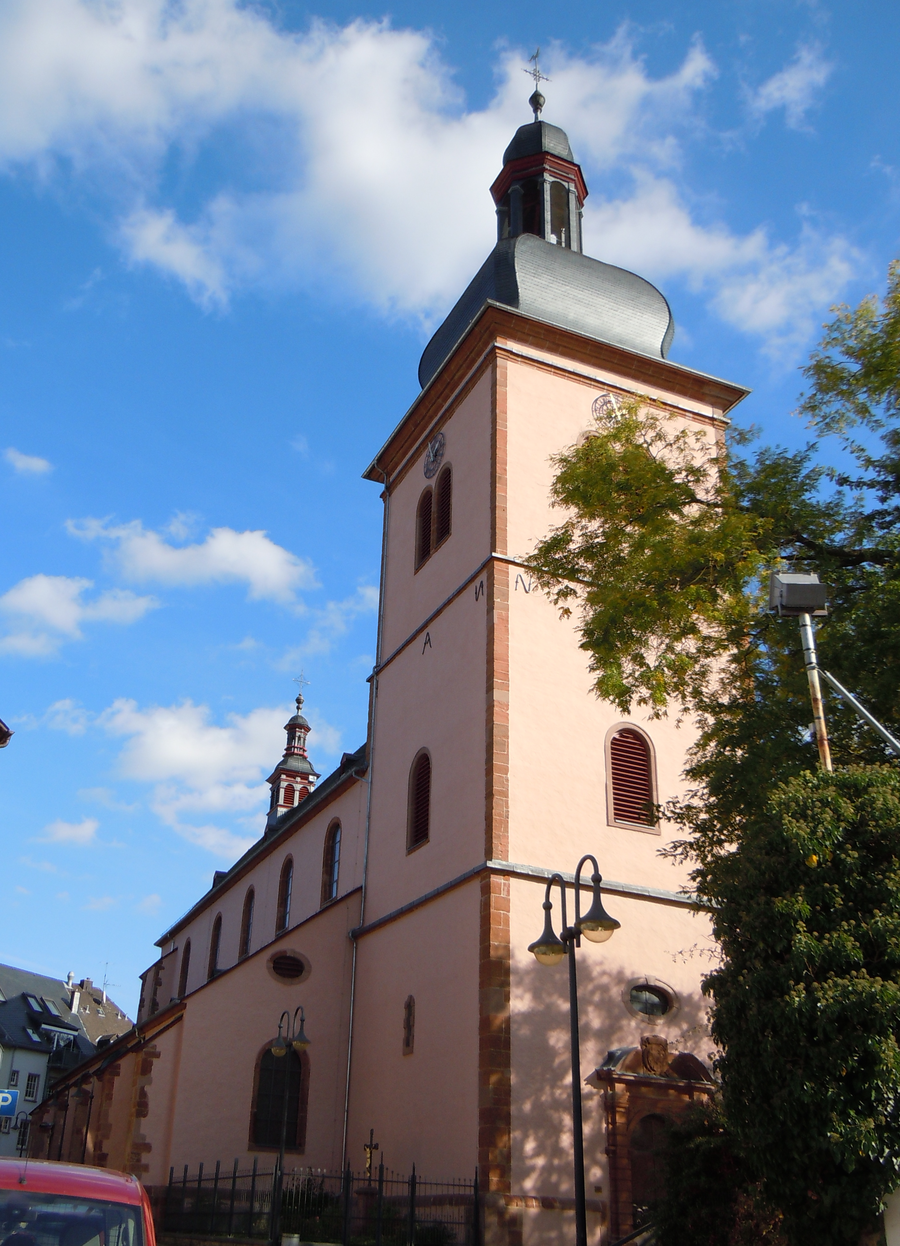 St. Markus church in Wittlich.